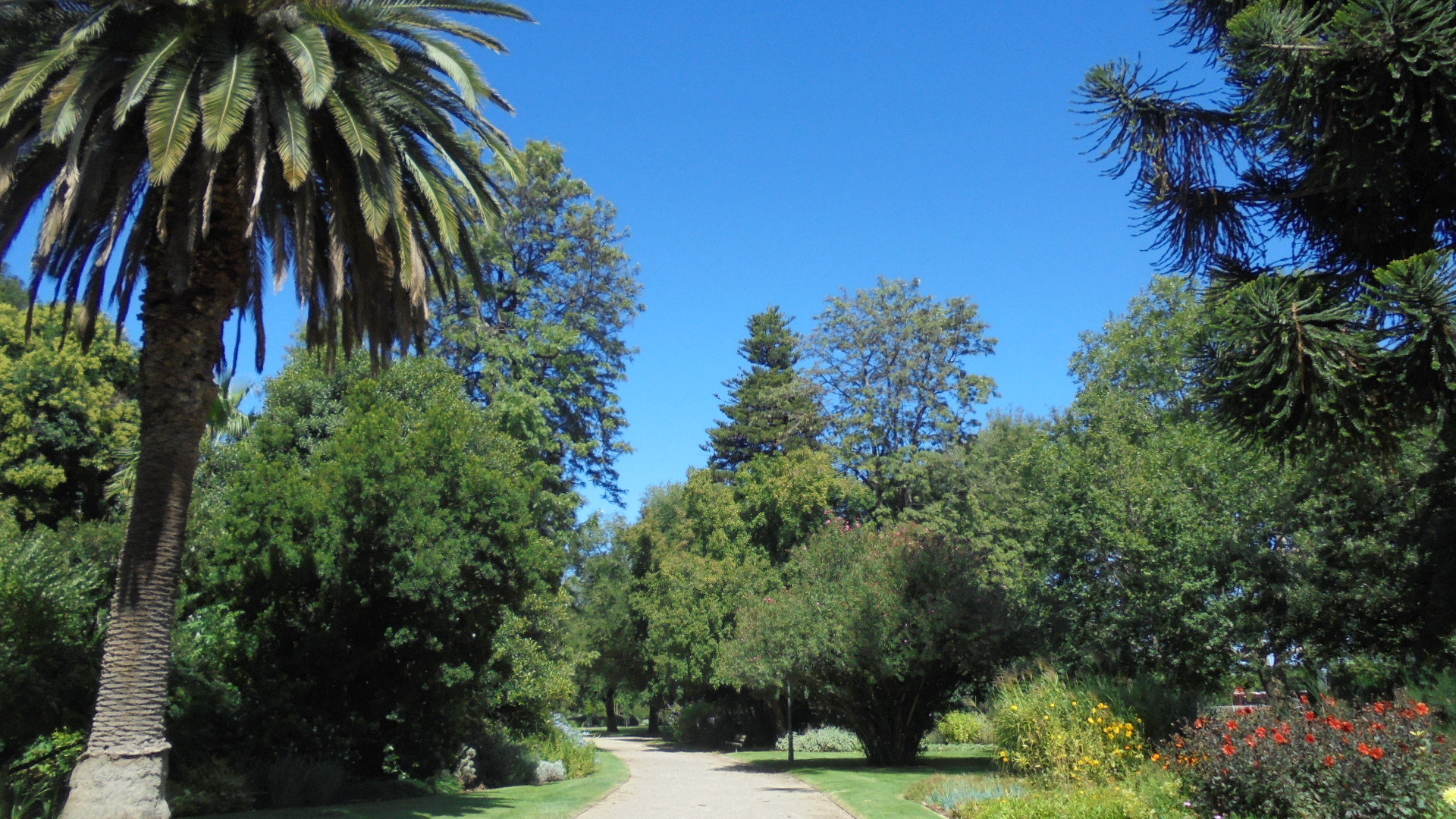 The botanic gardens at Benalla, Victoria